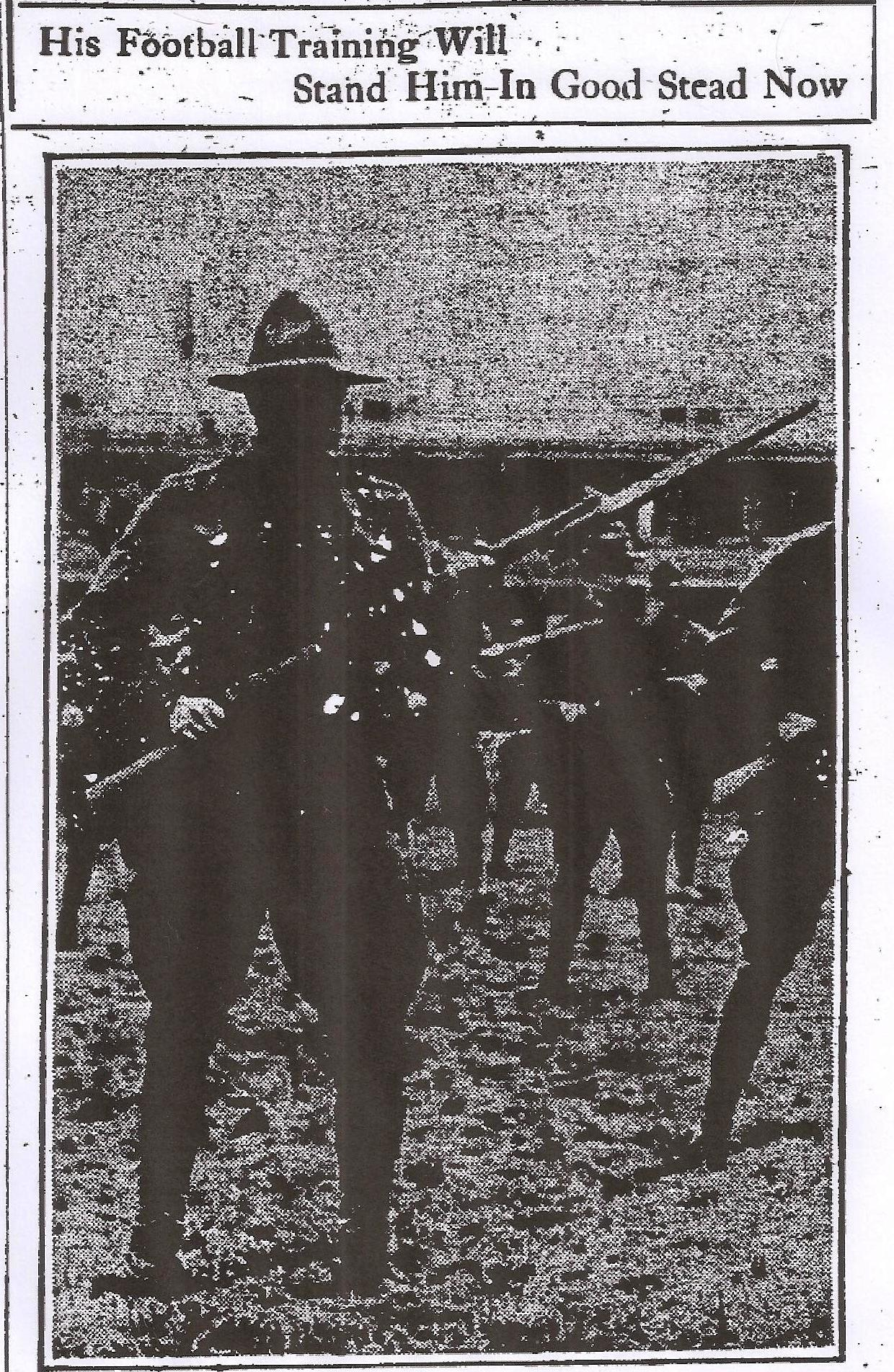 Image of Doug Bomeisler